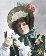 Mily-Meyer as Mlle. Lenormand in La revue retrospective